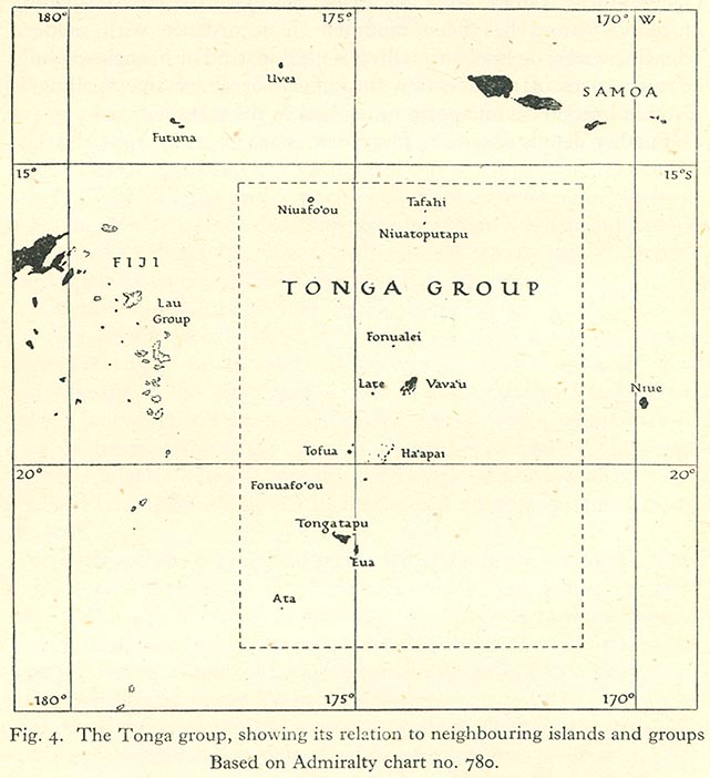 Map of Tonga, showing its relation to neighbouring islands and groups